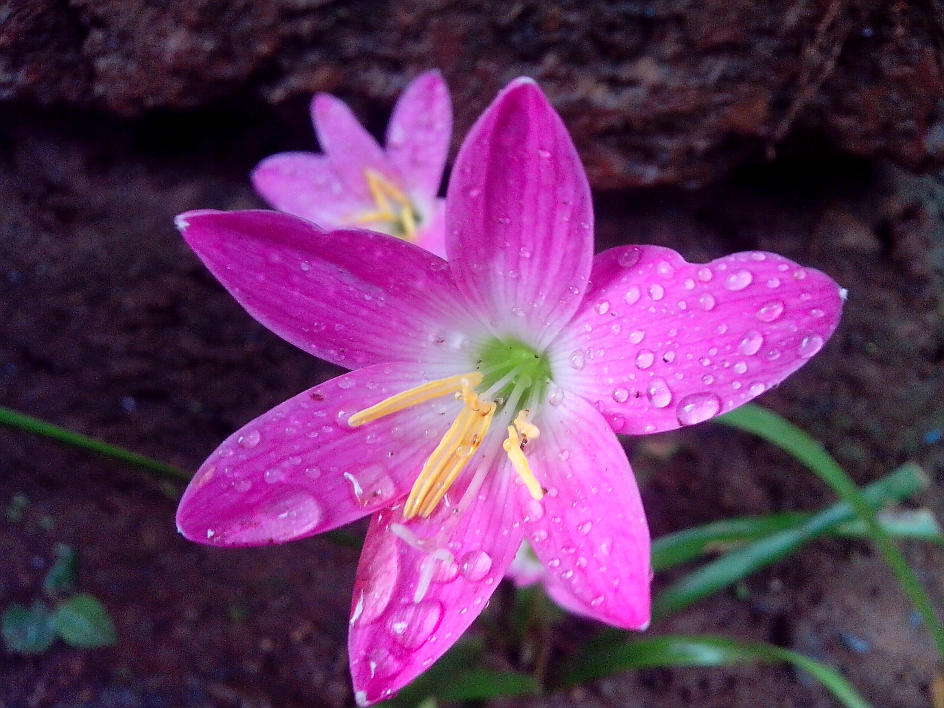 Rain lilly rose, Zephyranthes rosea